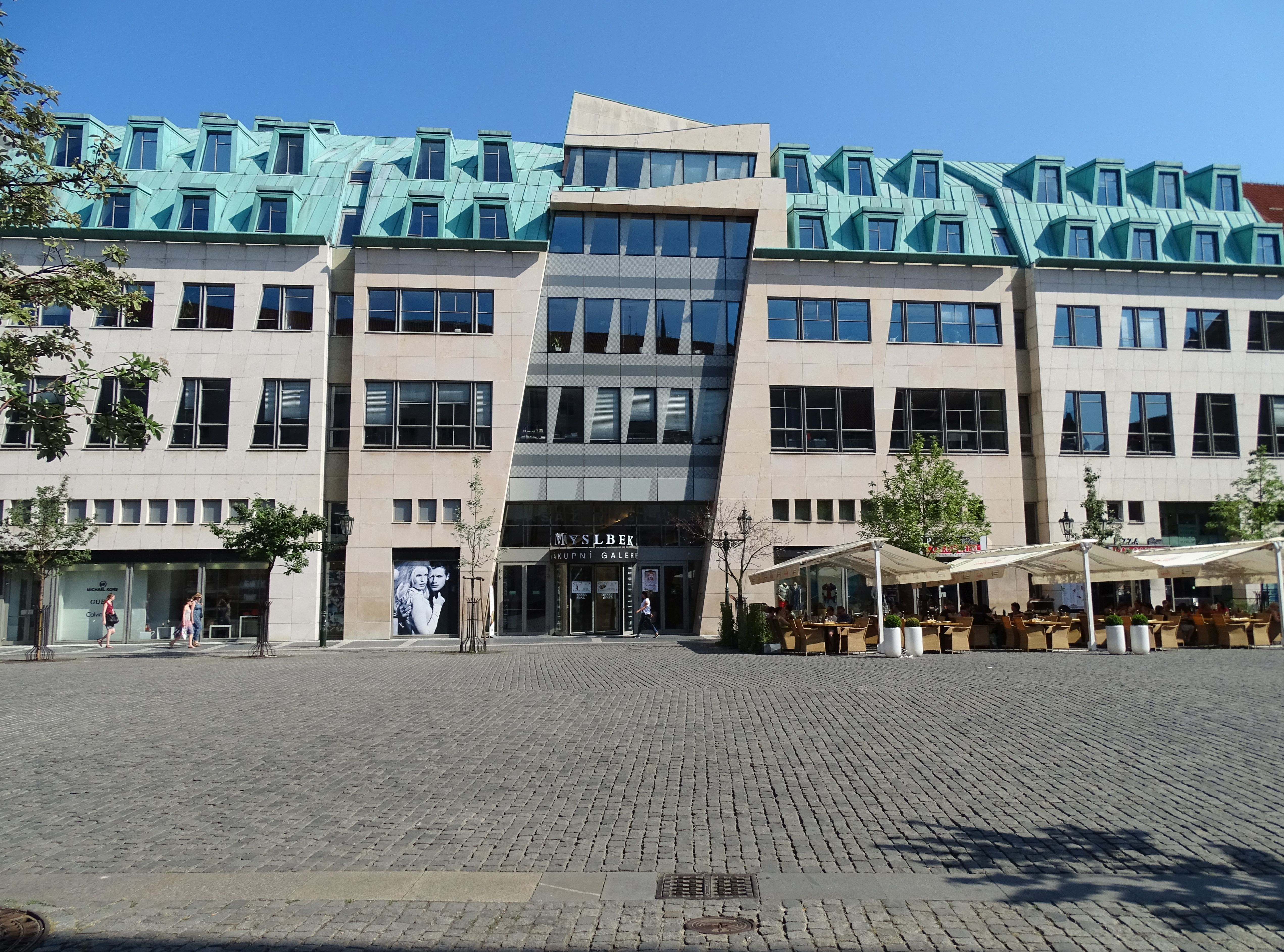 Prague-Old Town, Czech Republic. Ovocný trh 1096/8+10, Myslbek Palace.